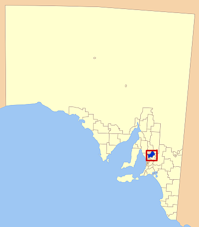 Map of South Australia showing the location of the Light Local Government Area. A modification of GDFL map by Astrokey44; found here: File:SA_LGA_blank.png